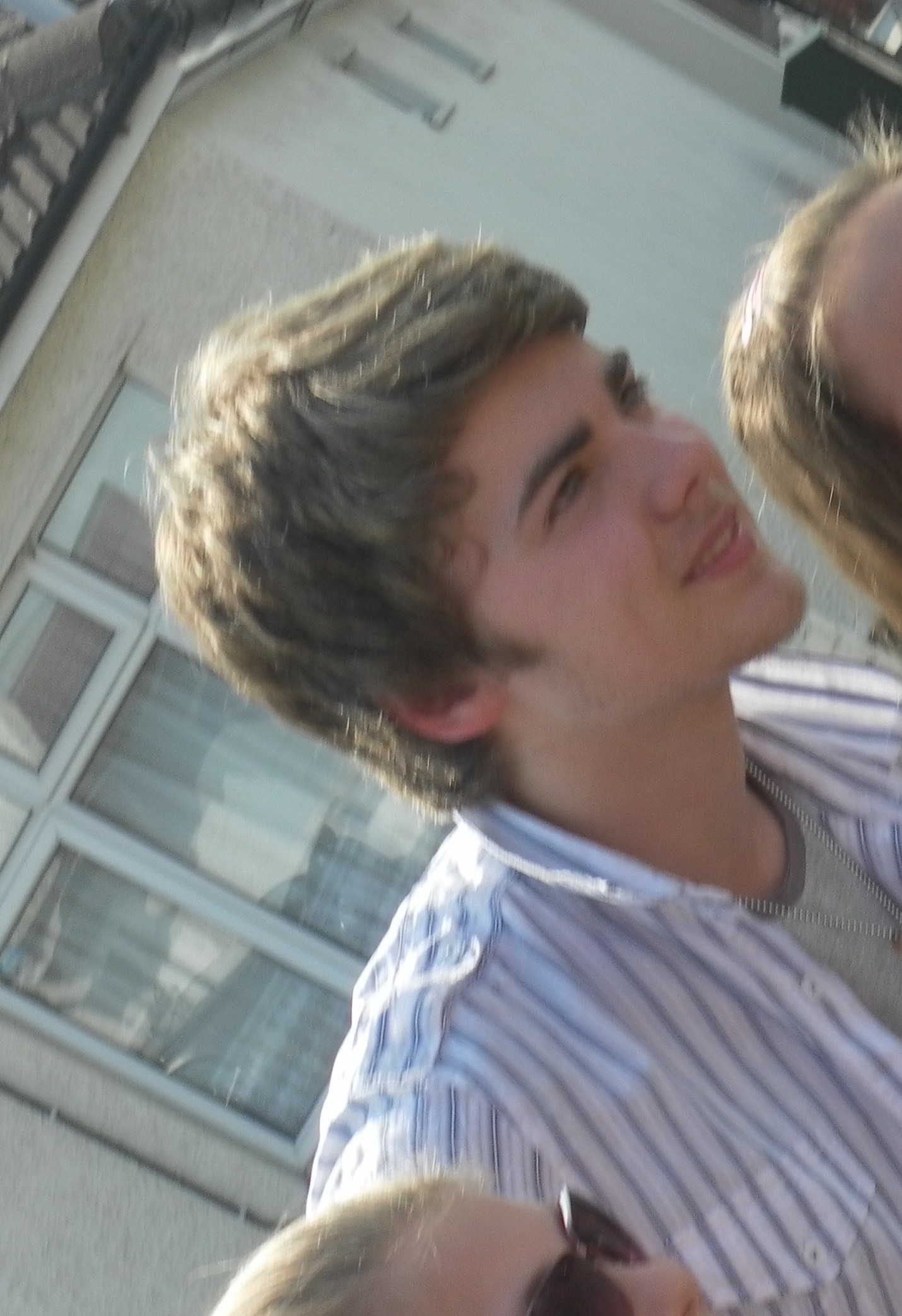 Thomas Law